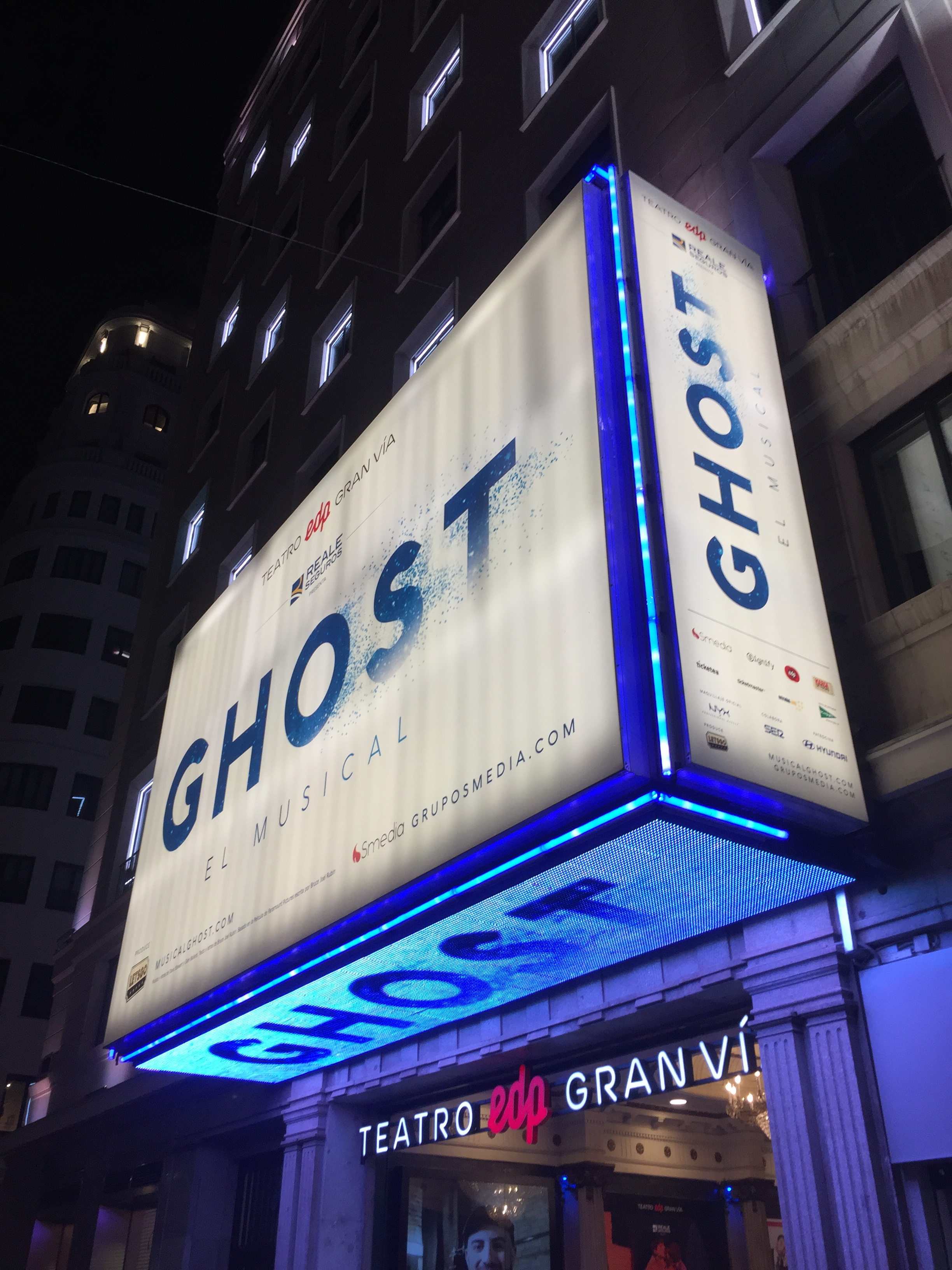 Ghost at Teatro Gran Vía in Madrid